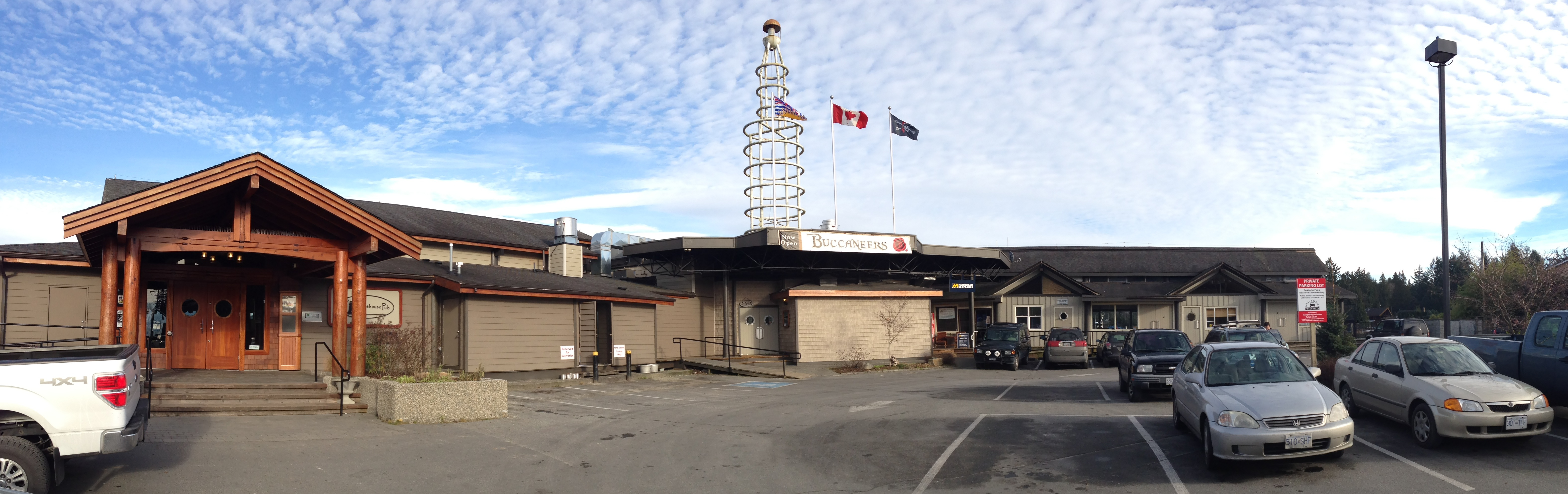 Photo of the Lighthouse Pub and entrance to Buccaneers Restaurant and Harbour Air Float Plane Base. Other information This is a panoramic image created by the iPhone5 default camera application.